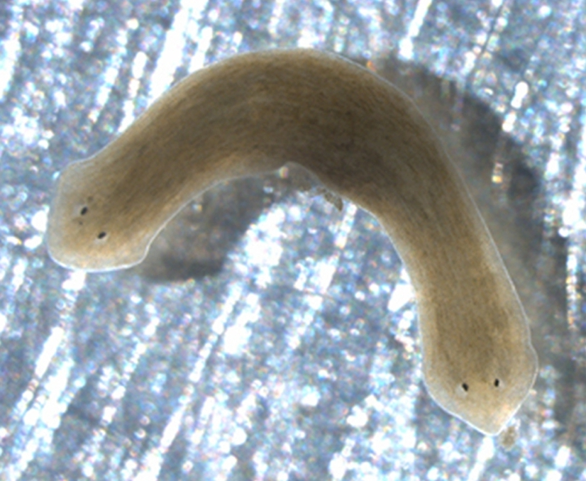 Two headed flatworm that regenerated from a trunk fragment exposed to PZQ (70 µM, 48 hrs).